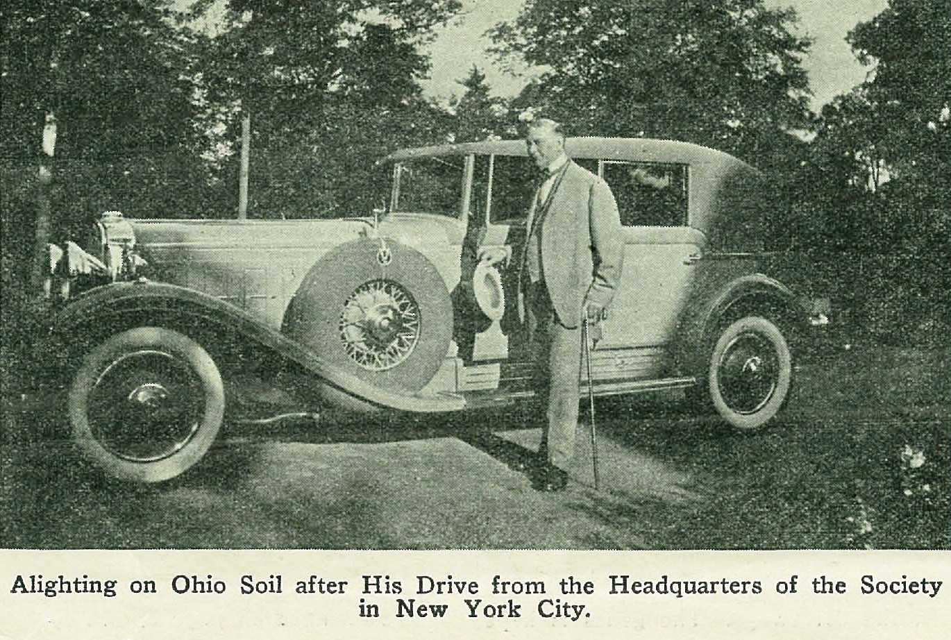 Picture taken from the July 25, 1931 Messenger of J.F. Rutherford ("Judge Rutherford") standing next to one of his 16 cylinder Cadillac cars. One was kept for his use in Brooklyn, New York and the other one was kept at Beth Sarim in San Diego, California. At the time, Rutherford was president of the Watchtower Bible and Tract Society (Jehovah's Witnesses). Copyright for the Messenger was not renewed and picture is in the public domain. Picture was scanned from original magazine.